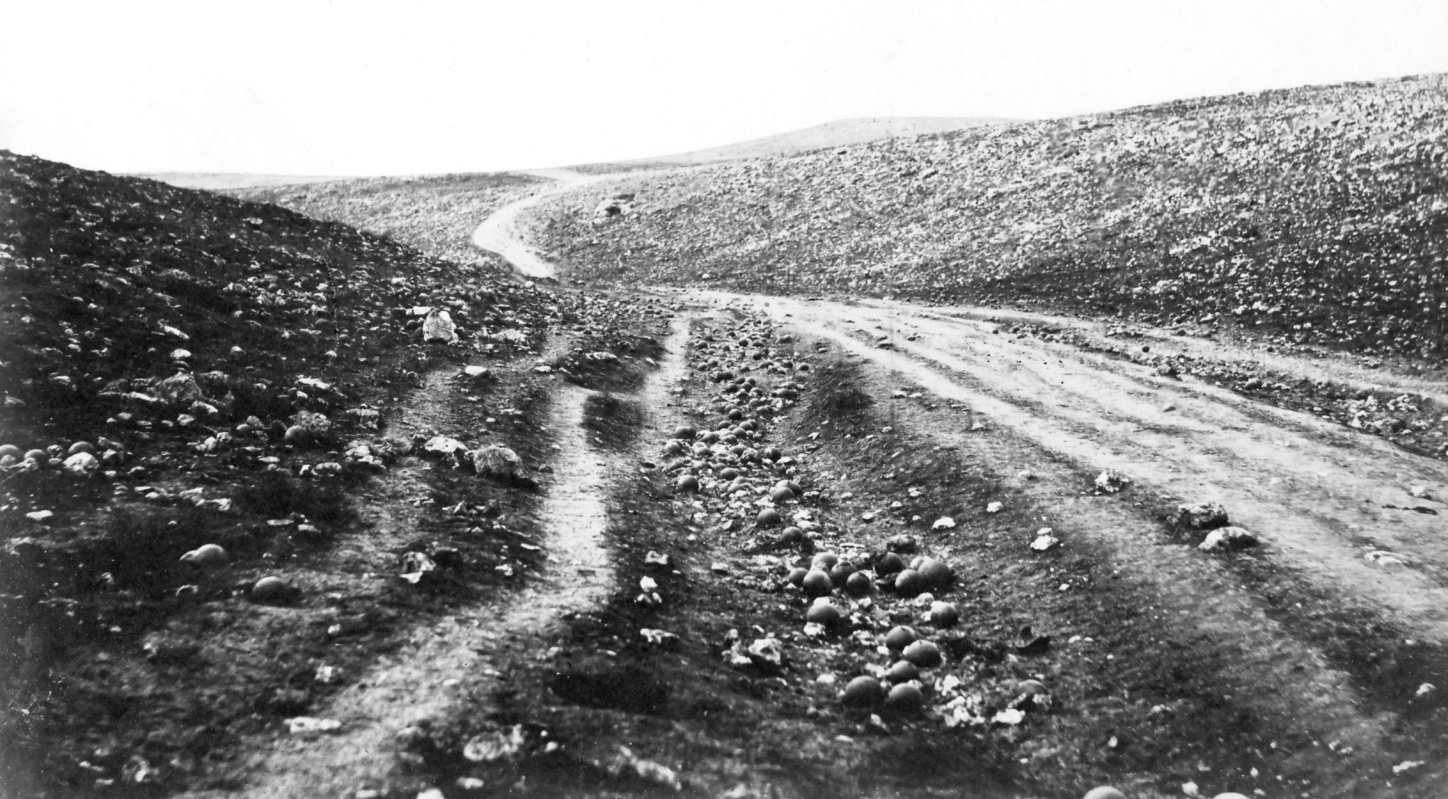 "The valley of the shadow of death" Crimean War photograph. Dirt road in ravine scattered with cannonballs.